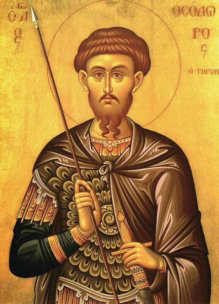 St. Theodore Tyro (Orthodox icon)